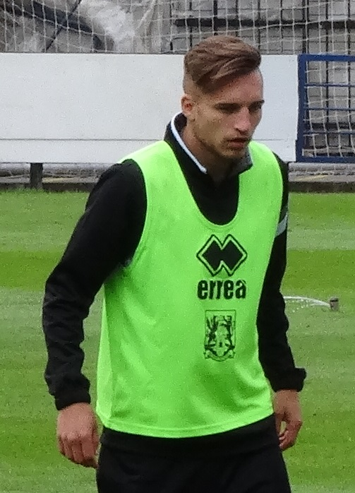 Lawson D'Ath warming up for Northampton Town against York City at Bootham Crescent, York on 16 August 2014